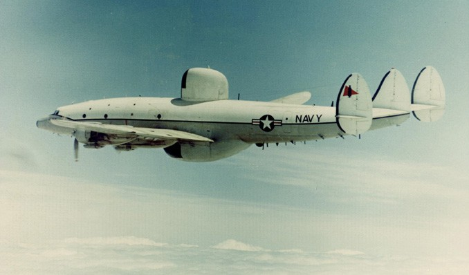 A U.S. Navy Lockheed EC-121M Warning Star (BuNo 143209, tal code JQ-14) of fleet air reconnaissance squadron VQ-2 Batmen in the early 1970s.